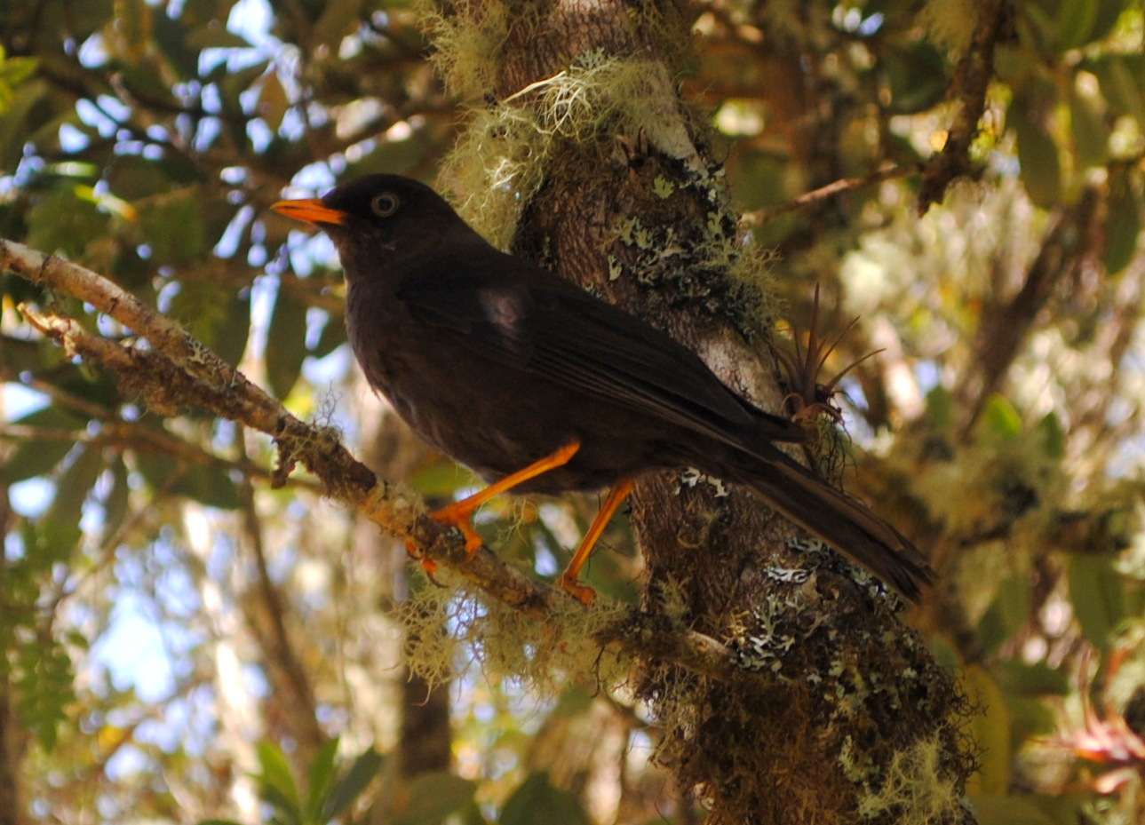 A photo Wuapinmon took of a Sooty Robin in a tree in a pasture at about 3000 meters above sea level. Wuapinmon stood there for about a half hour before this one trusted me enough to get close.